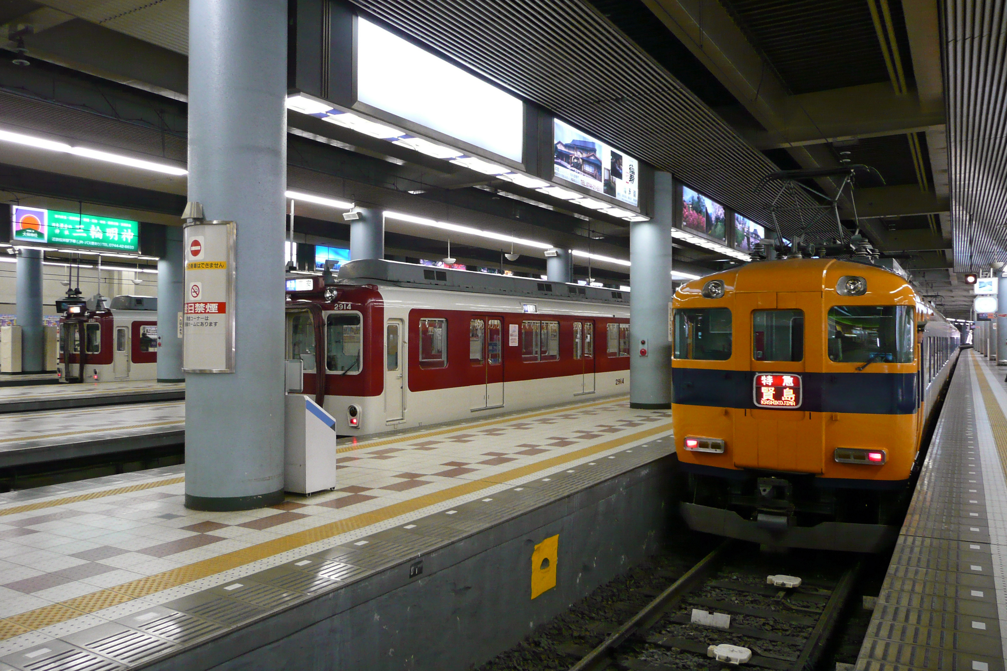 Uehommachi Station in Osaka, Osaka prefecture, Japan